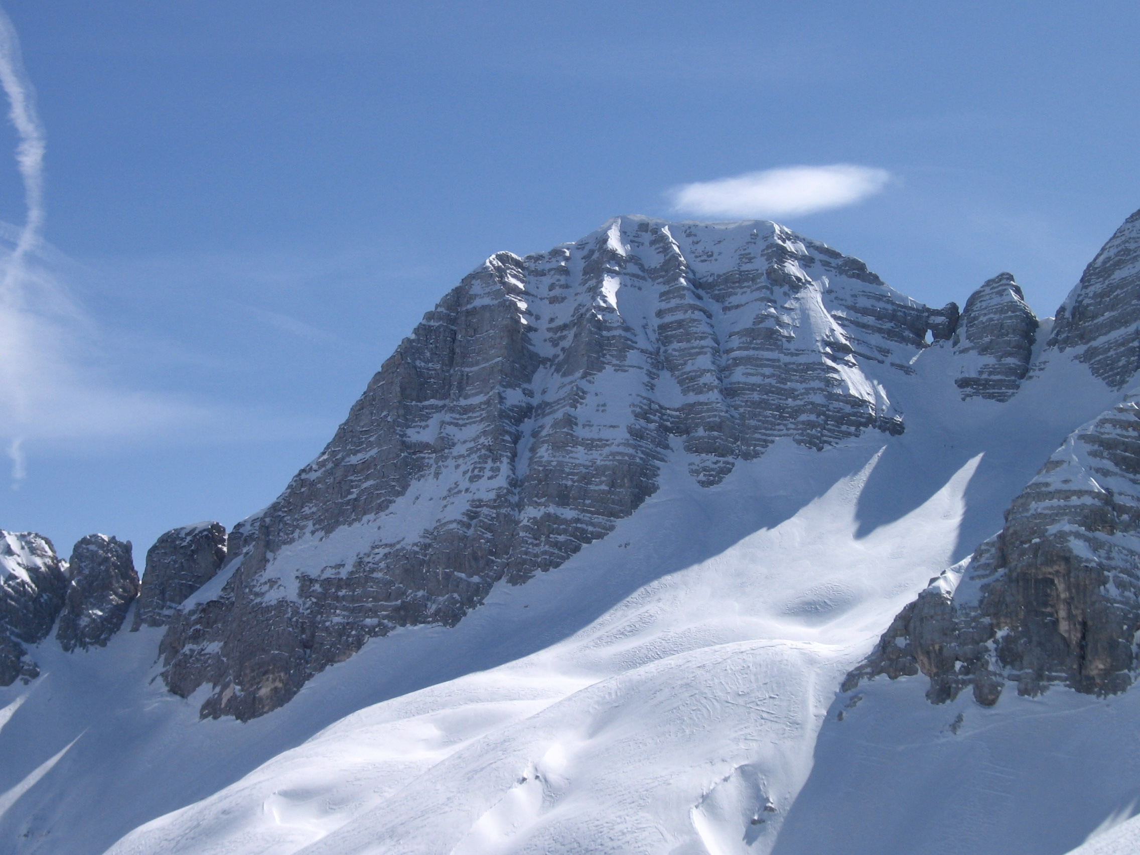 Mt. Prestreljenik (2.499 m) above the valley of Prevala, north side, on the border between Italy and Slovenia.